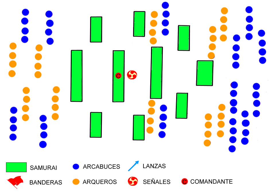 Samurai formation called "ganko" (arrowhead), used during Azuchi-Momoyama period of japanese history.